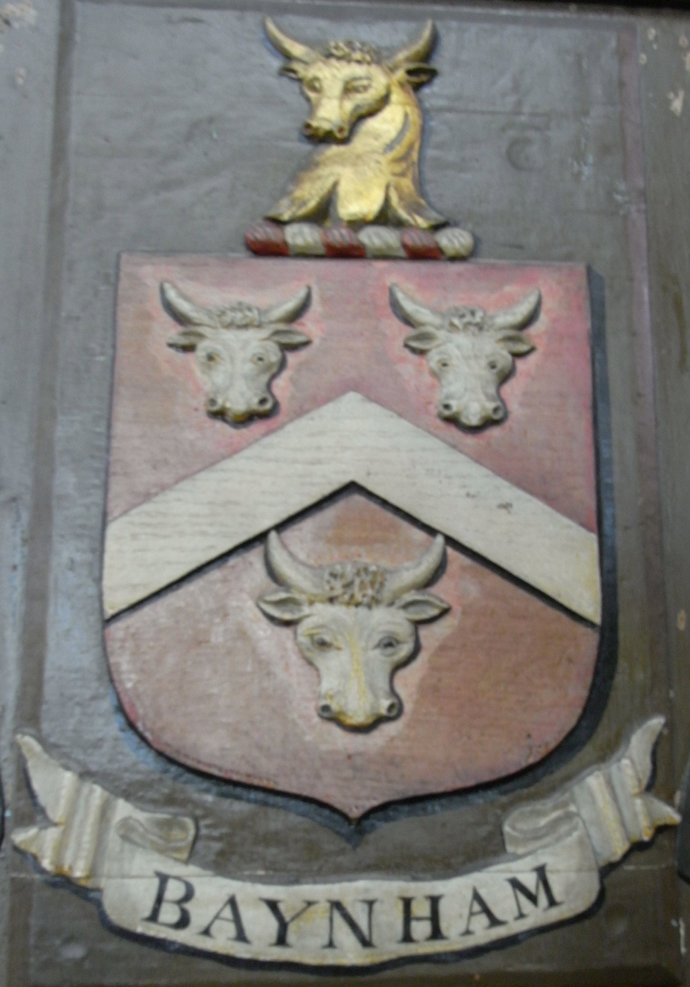 The arms of the Baynham family, the blazon of which reads: "gules, a chevron between three bulls' heads cabossed argent armed Or": John Maclean; W. C. Heane , ed. (1885) The Visitation of the County of Gloucester, Taken in the Year 1623 by Henry Chitty and John Phillipot as Deputies to William Camden, Clarenceux King of Arms. With Pedigrees from the Herald's Visitation of 1569 and 1582–3, and Sundry Miscellaneous Pedigrees [Publications; 21], London, p. 12 OCLC: 3978666. This is a painted escutcheon on a 19th-century mural monument in the parish church of Saint Michael and All Angels, Mitcheldean, Gloucestershire, England, UK. Affixed on the same monument are the 15th-century brasses of the two wives of Thomas Baynham (died 1500), Constable of St. Briavel's Castle and the great-grandfather of Thomas Baynham (1536 – 2 October 1611).